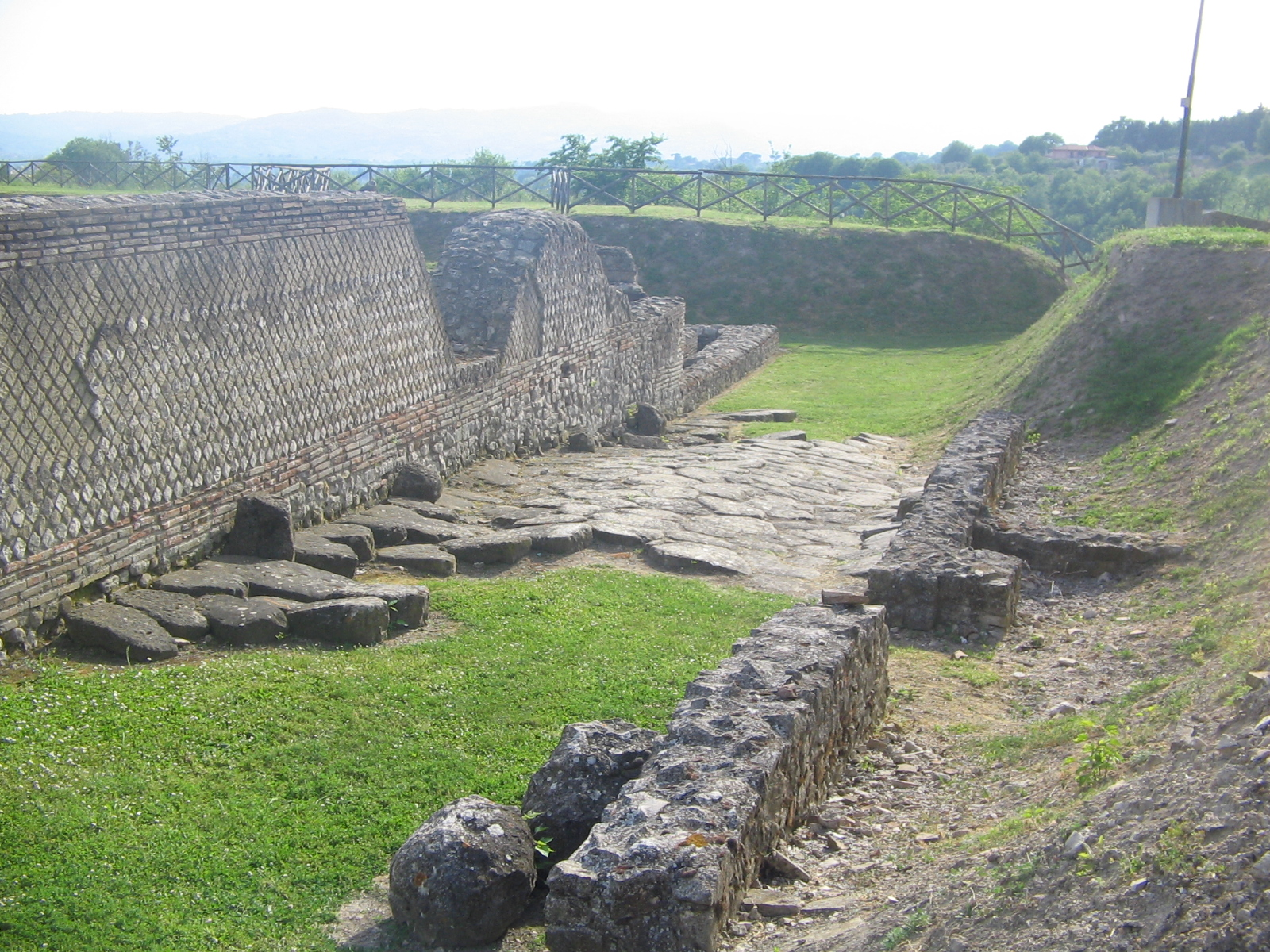 View of a street in the archaeological park of the Ancient Roman town of Aeclanum.